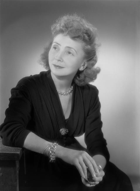 Studio photo